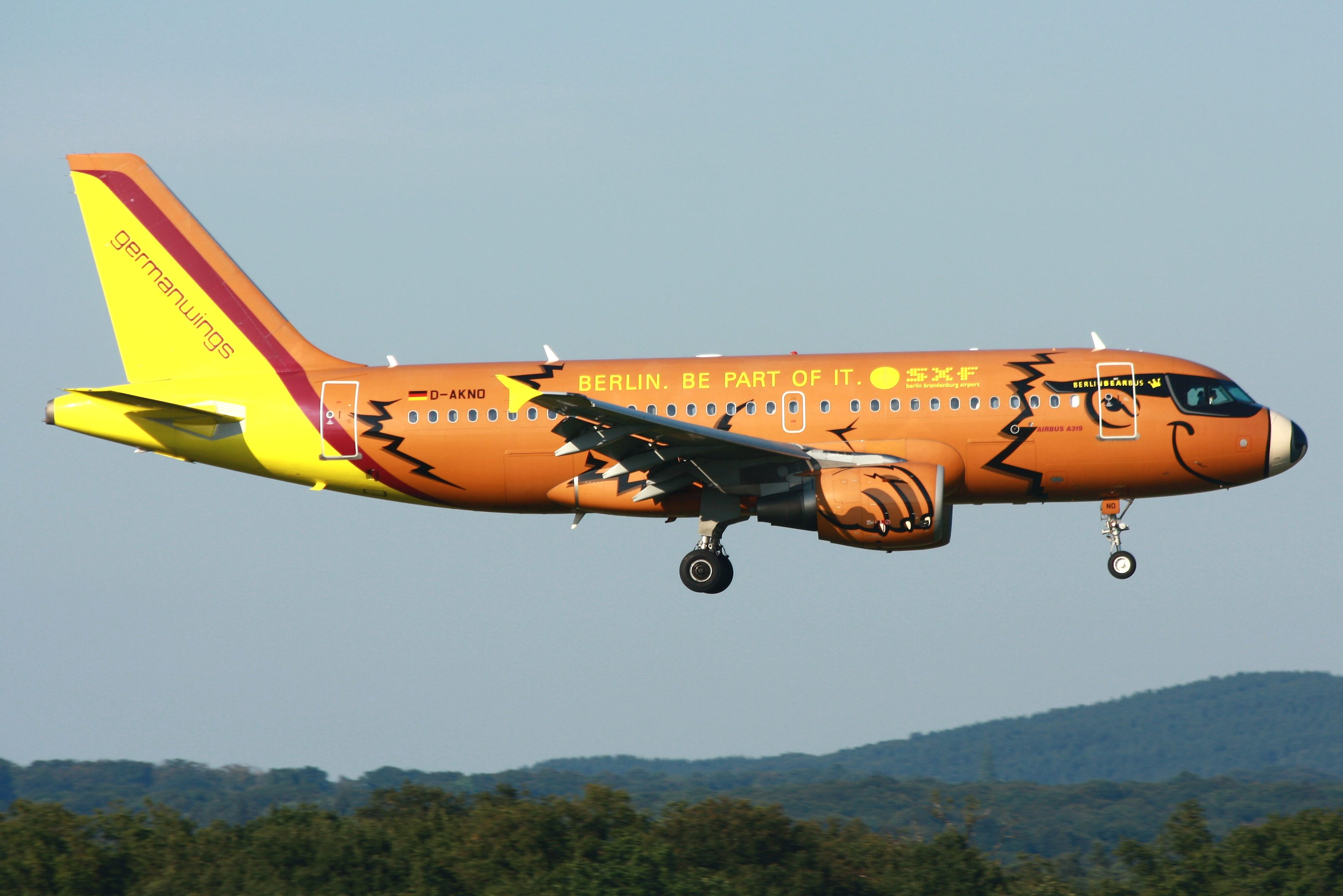 Airbus A319 (D-AKNO) of Germanwings on final to Cologne Bonn Airport